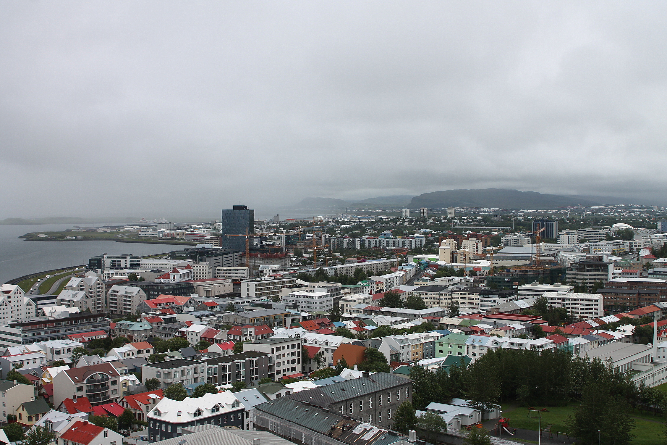 A view of Reykjavík from the top of Hallgrímskirkja